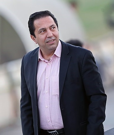 Majid Namjoo Motlagh, Iranian football manager and former player